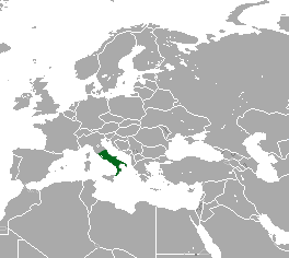 Roman Mole (Talpa romana) range